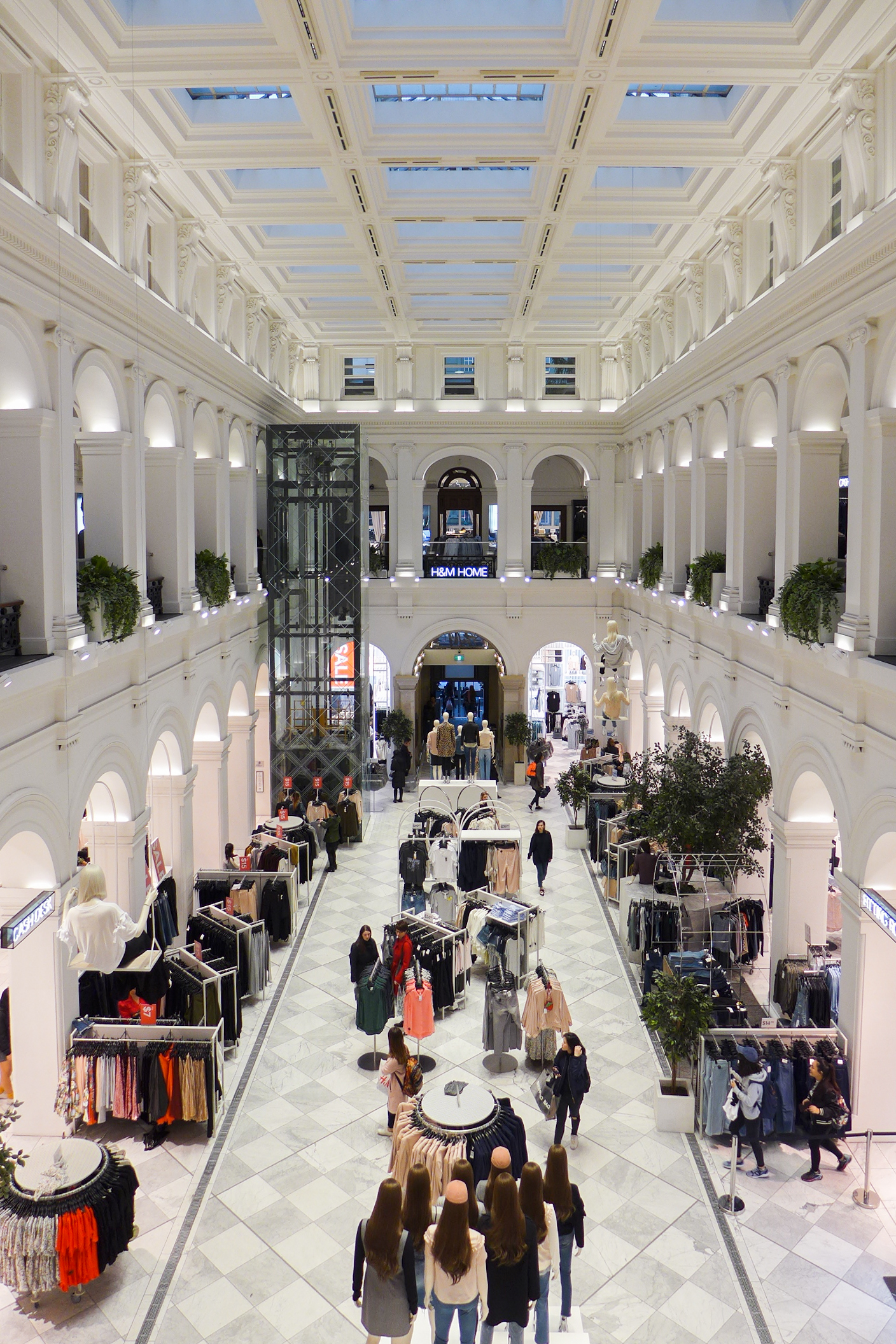 H&M store in General Post Office Melbourne